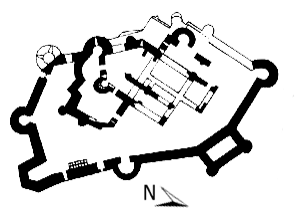 Layout of the Puebla de Almenara castle (Cuenca, Spain).